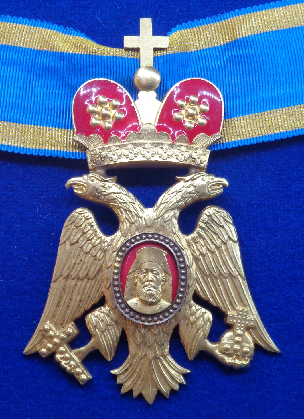 Order of Makarios III, Grand Commander's badge. Republic of Cyprus. The exhibition of the Tallinn Museum of Orders of Knighthood, Estonia.